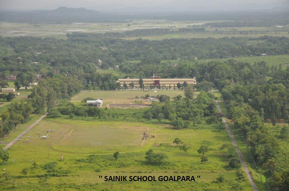 aerial view